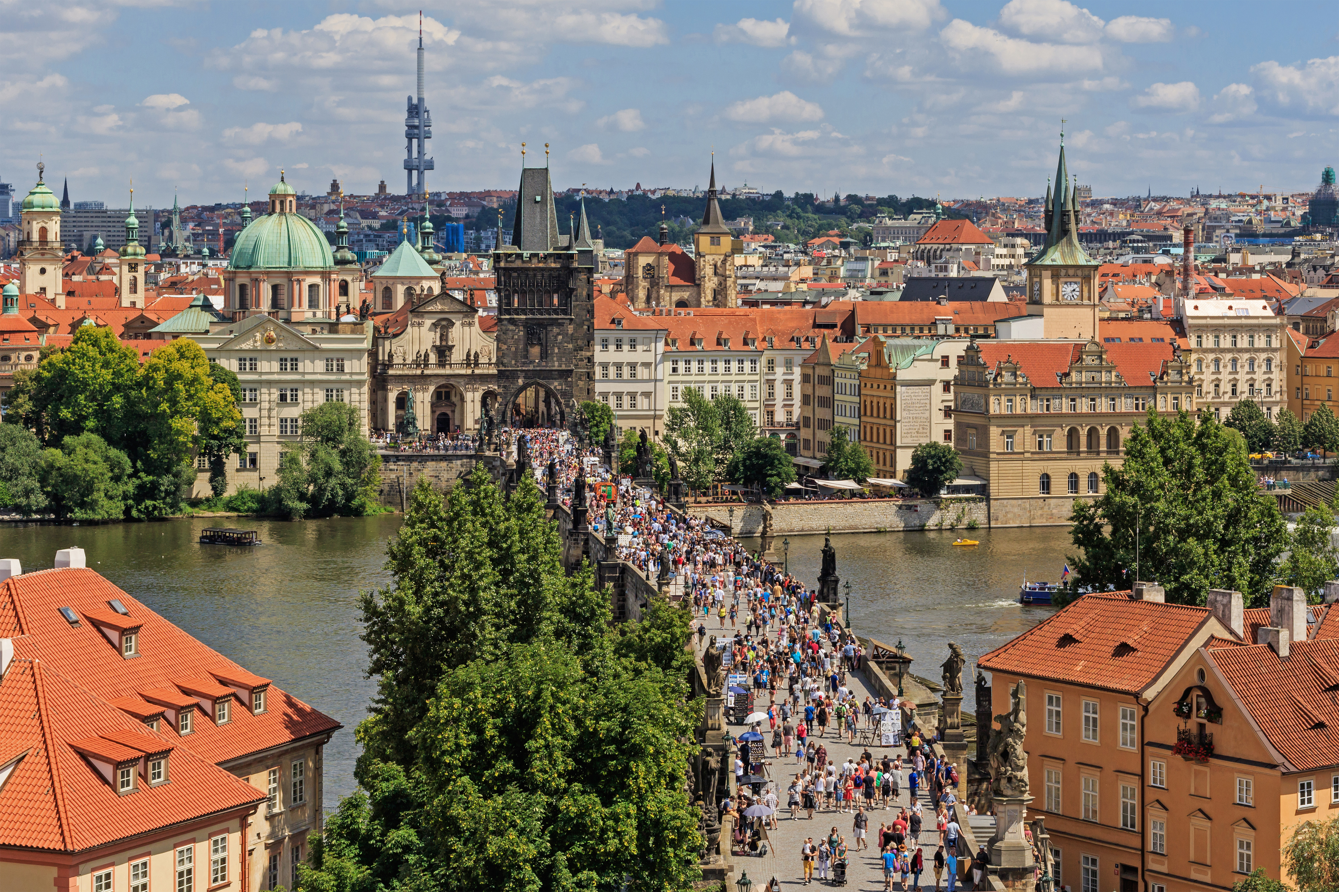 View from the Lesser Town tower of Charles Bridge in Prague (Czech Republic)